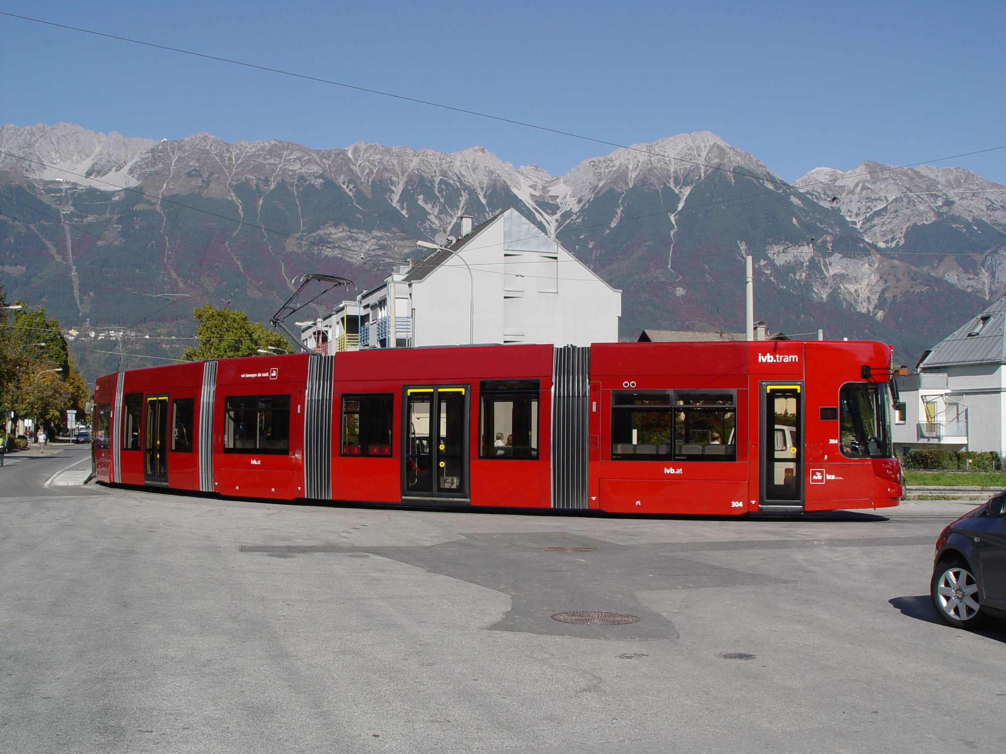 Motorcar 304 of the Tramway Innbsbruck